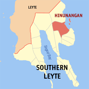 Map of Southern Leyte showing the location of Hinunangan